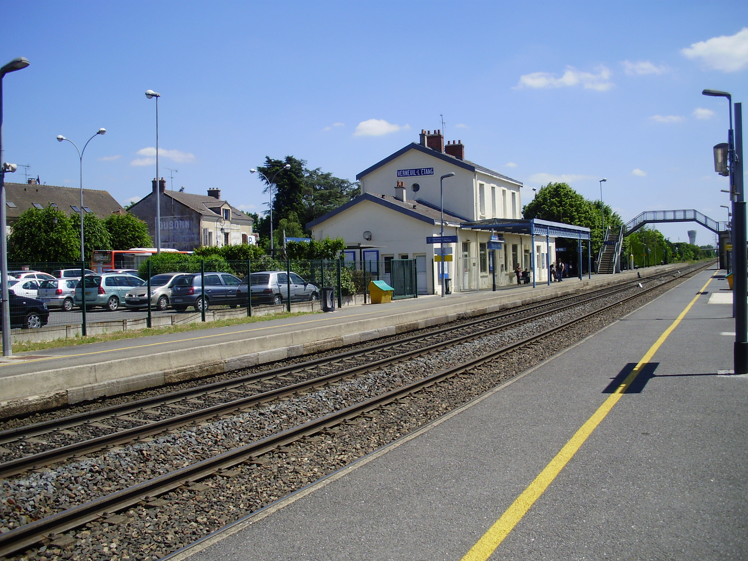 Platforms of Verneuil-l'Étang station, Seine-et-Marne, France (view towards Longueville)